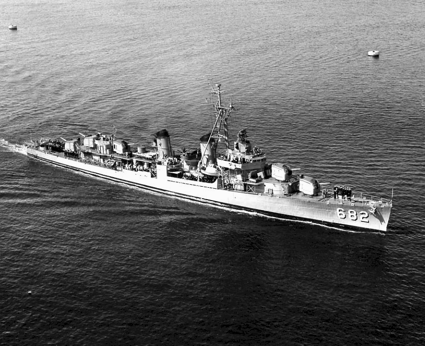 The U.S. Navy Fletcher-class destroyer USS Porterfield (DD-682) underway with her crew at quarters while entering or leaving port, circa the early 1950s. Note that the ship has received a new tripod foremast, but still carries World War II vintage radar antennas on the mast and gun director.